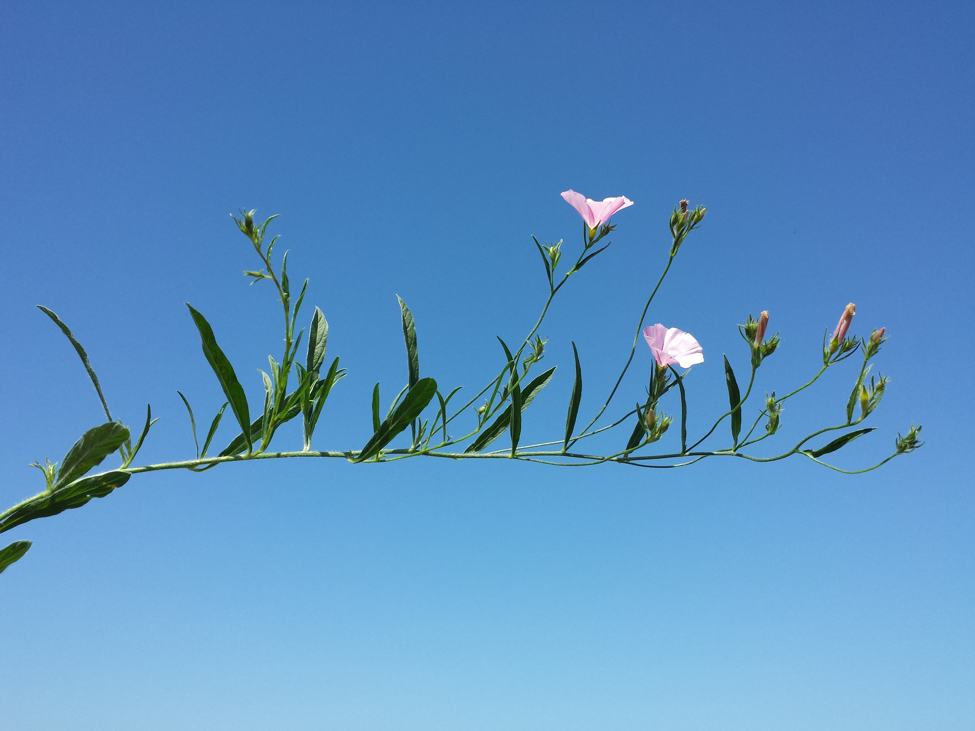 Habitus Taxonym: Convolvulus cantabrica ss Rottensteiner: Exkursionsflora für Istrien ISBN 978-3-85328-067-6 Location: Ćićarija, Istria, Slovenia - ca. 400 m a.s.l. Habitat: rock steppe